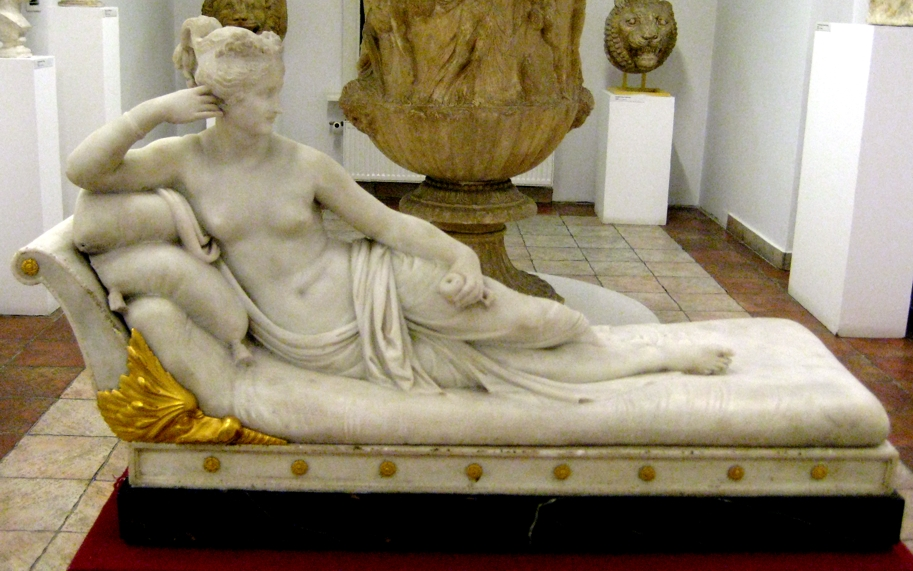 Venus Victrix by Canova. Cast in Pushkin museum